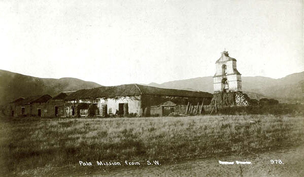 Pala Asistencia circa 1875. A colonial California era sub-mission in ruins — in present day San Diego County. img URL